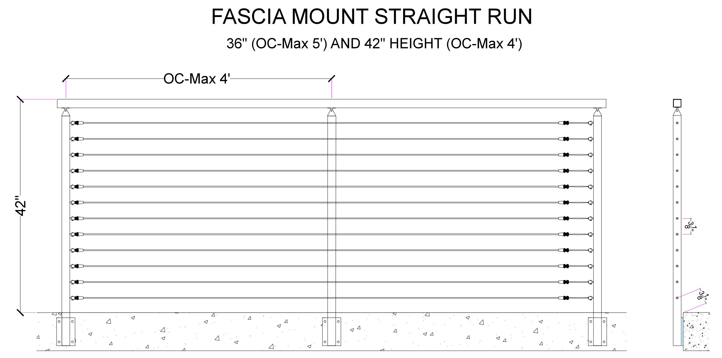 Fascia mounted cable-railings at 42in height